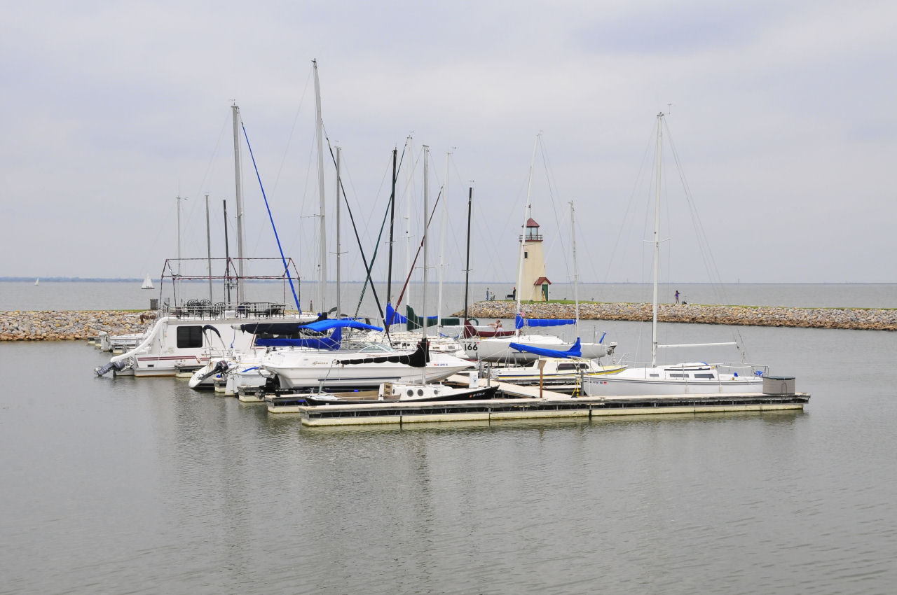 Marina - Hefner Lake is an artificial lake